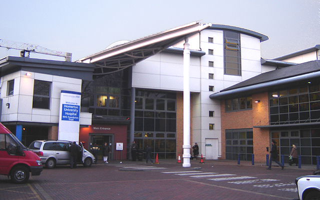 Homerton University Hospital, Hackney, London. 24 February 2006. Photographer: Fin Fahey